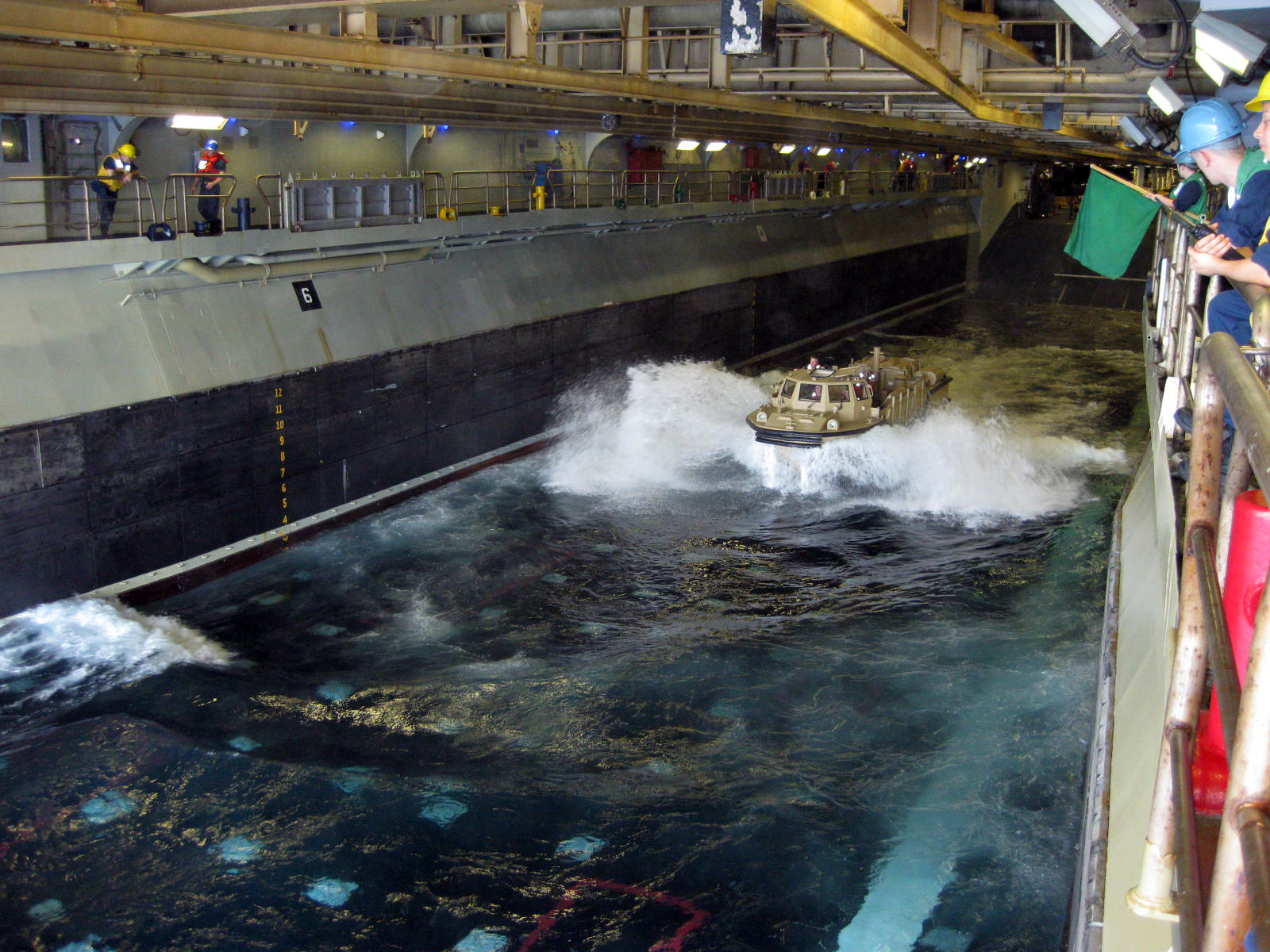 ATLANTIC OCEAN (Oct. 12, 2009) Construction Mechanic 3rd Class Nicholas Asmussen, assigned to Detachment X-Ray, drives a light amphibious re-supply cargo vehicle through the well deck of the amphibious assault ship USS Wasp (LHD 1). Detachment X-Ray is composed of 51 Sailors, drawn from Beach Master Unit 2, Assault Craft Unit 2, and Amphibious Construction Battalion 2, and assists with hurricane relief, salvage operations, and transporting Marine equipment to and from shore. (U.S. Navy photo by Chief Boatswain's Mate Karl Kundrat/Released)